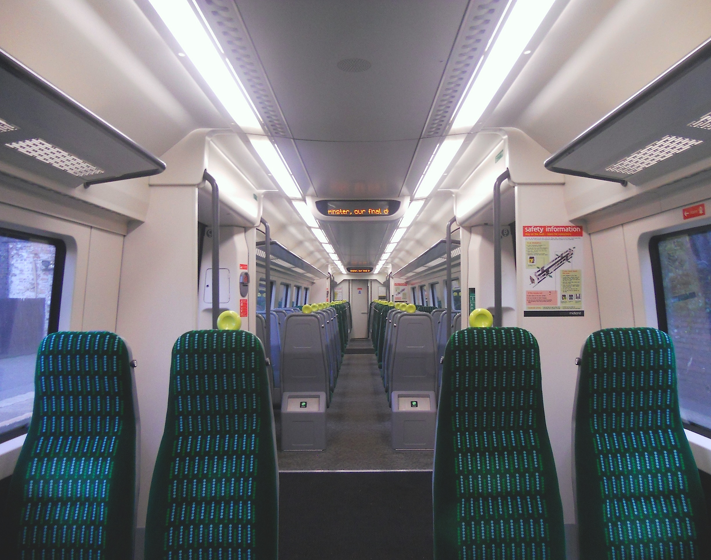 The interior of a London Midland Class 172